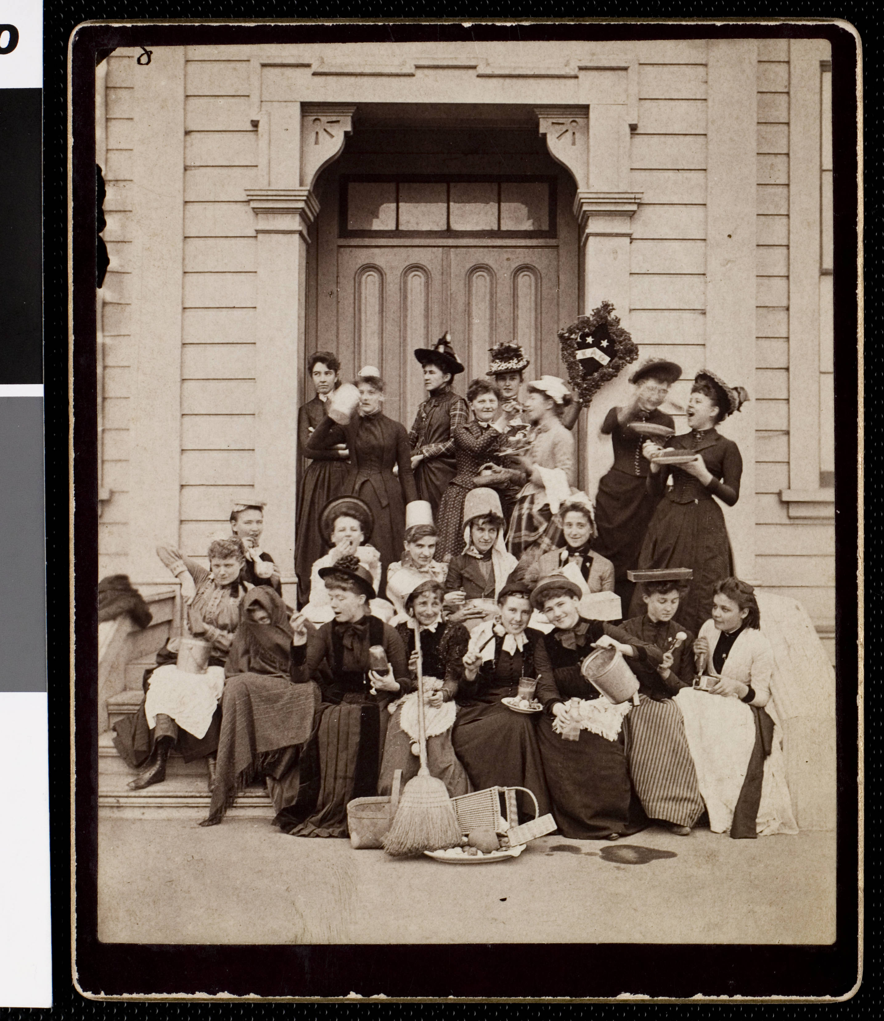 Kappa Alpha Theta sorority women in front of an entrance to a building, ca. 1880-1919 Photograph of the Kappa Alpha Theta sorority women. In the foreground and in the middle,twenty one young women can be seen sitting and standing on a porch in front of an entrance to a building (sorority house, perhaps). They wear old-fashioned dresses which were popular in the end of 19th and the beginning of 20th centuries. Some of them wear tin buckets as hats, some of them hold buckets in their hands, some of them hold plates with food and glasses with drinks. Filename: uaic-sor-1880-1919-002~1; uaic-sor-1880-1919-002~2 Subject (file heading): Sororities - Before 1920 Part of collection: University of Southern California History Collection Type: images Part of subcollection: University Archives Image Collection Repository name: USC Libraries Special Collections Access conditions: Send requests to address or e-mail given. Phone (213) 821-2366; fax (213) 740-2343. Geographic subject (city or populated place): Los Angeles Coverage date: circa 1880/1919 Repository address: Doheny Memorial Library, Los Angeles, CA 90089-0189 Geographic subject (country): USA Subject (naf): Kappa Alpha Theta Rights: University of Southern California University Archives Repository Contributing entity: University of Southern California Date created: circa 1880/1919 Publisher (of the digital version): University of Southern California. Libraries Format (aat): photographs; photographic prints Geographic subject (state): California Legacy record ID: uaic-m380 Geographic subject: educational facilities: University of Southern California Original filename: uaic-sor-1880-1919-002 Geographic subject (county): Los Angeles Format (aacr2): 1 photograph : photoprint, b&w, 24 x 20 cm. Subject (lcsh): University of Southern California -- Students; Greek letter societies; Women